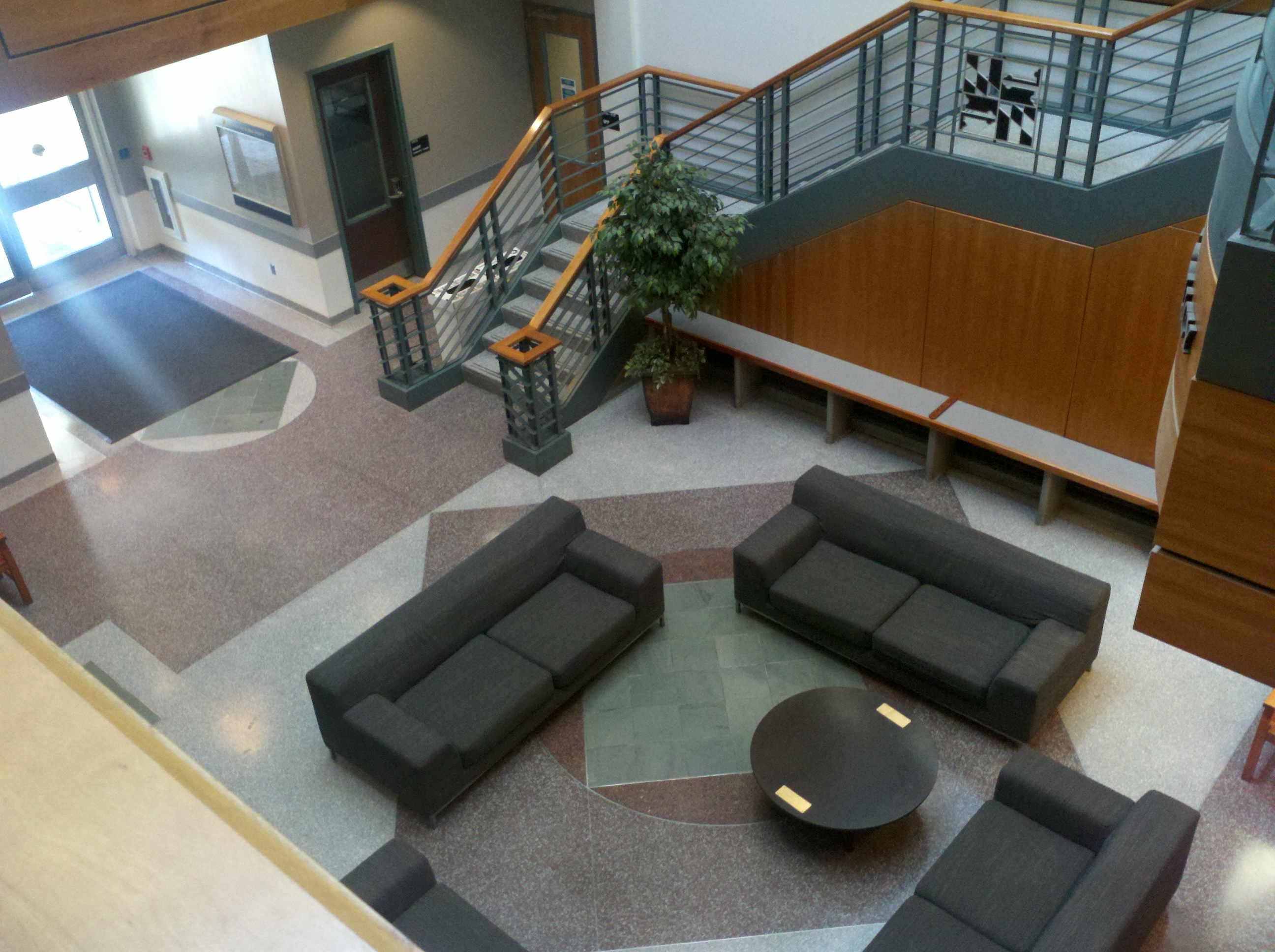 The Maryland School of Public Policy atrium is most often used as a study area or place to meet other students. It is also occasionally used to host school-sponsored events.